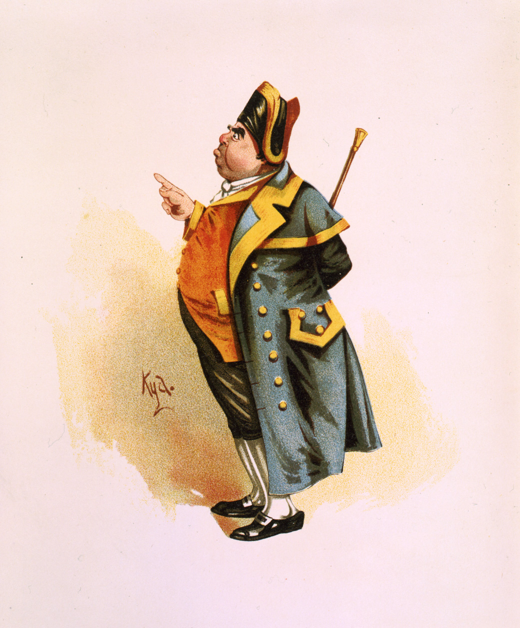 A full-length drawing of Mr. Bumble, the beadle of the parish that operates the workhouse depicted in Charles Dickens' Oliver Twist, depicted standing, facing left and pointing with his right hand.